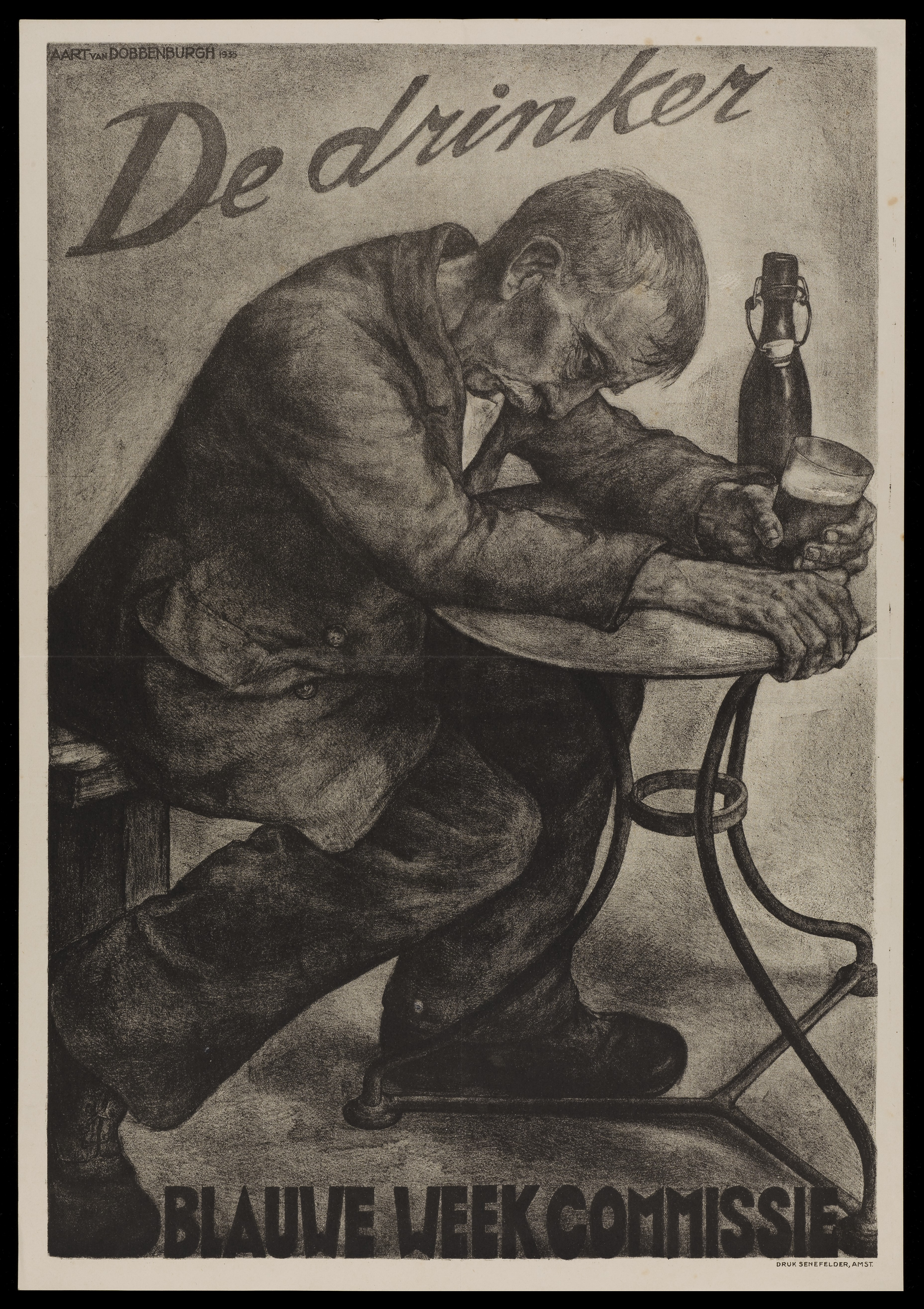 An intoxicated man drinking beer; advertising Blauwe Week against alcohol. Lithograph (?), 1936, after A. van Dobbenburgh, 1935 Iconographic Collections Keywords: Blauwe Week Commissie.; Aart van Dobbenburgh